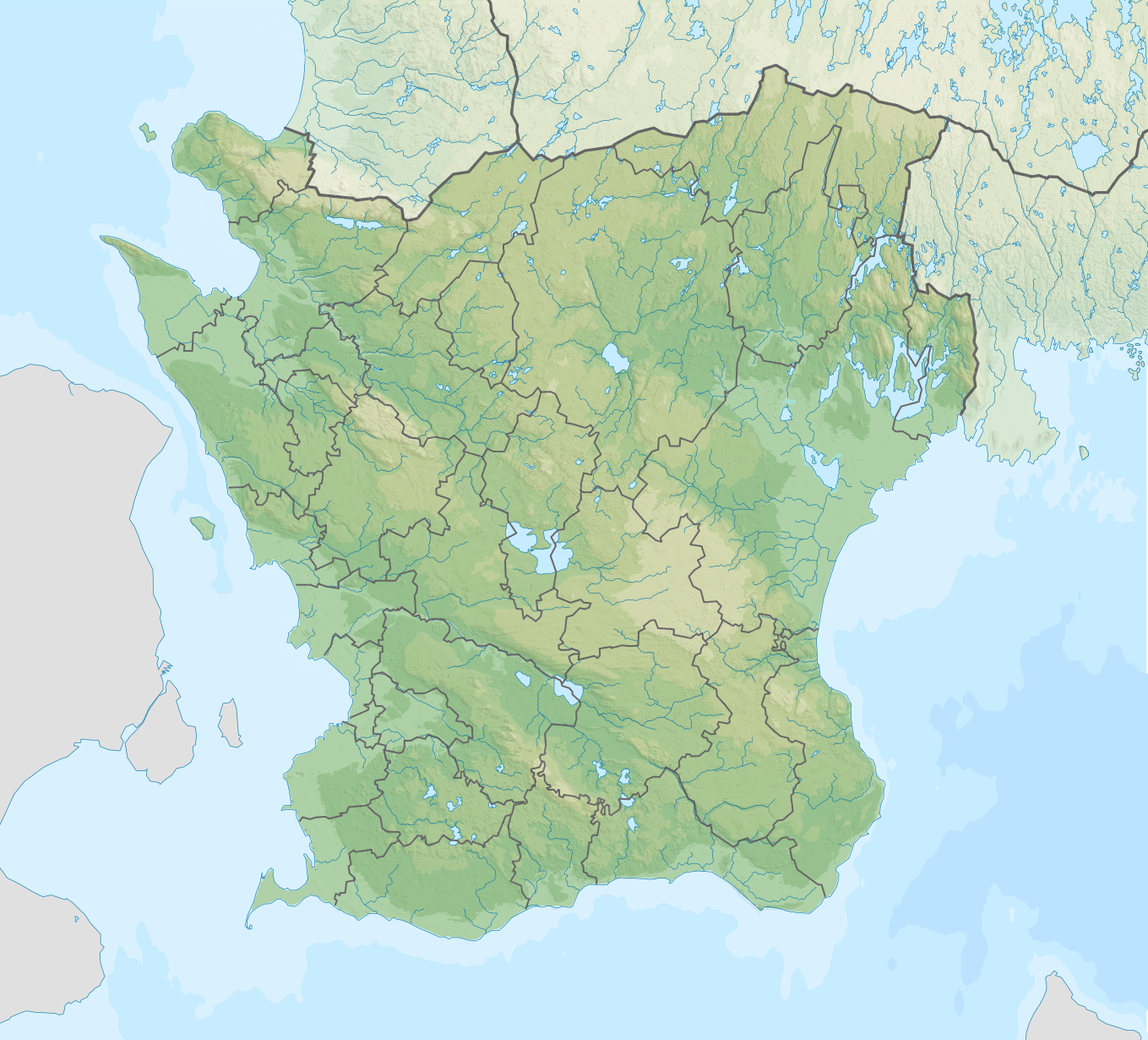 Location map of Scania (Skåne) in Sweden Equirectangular projection, N/S stretching 179 %. Geographic limits of the map: N: 56° 37' N S: 55° 12' N W: 12° 12' E E: 15° 00' E